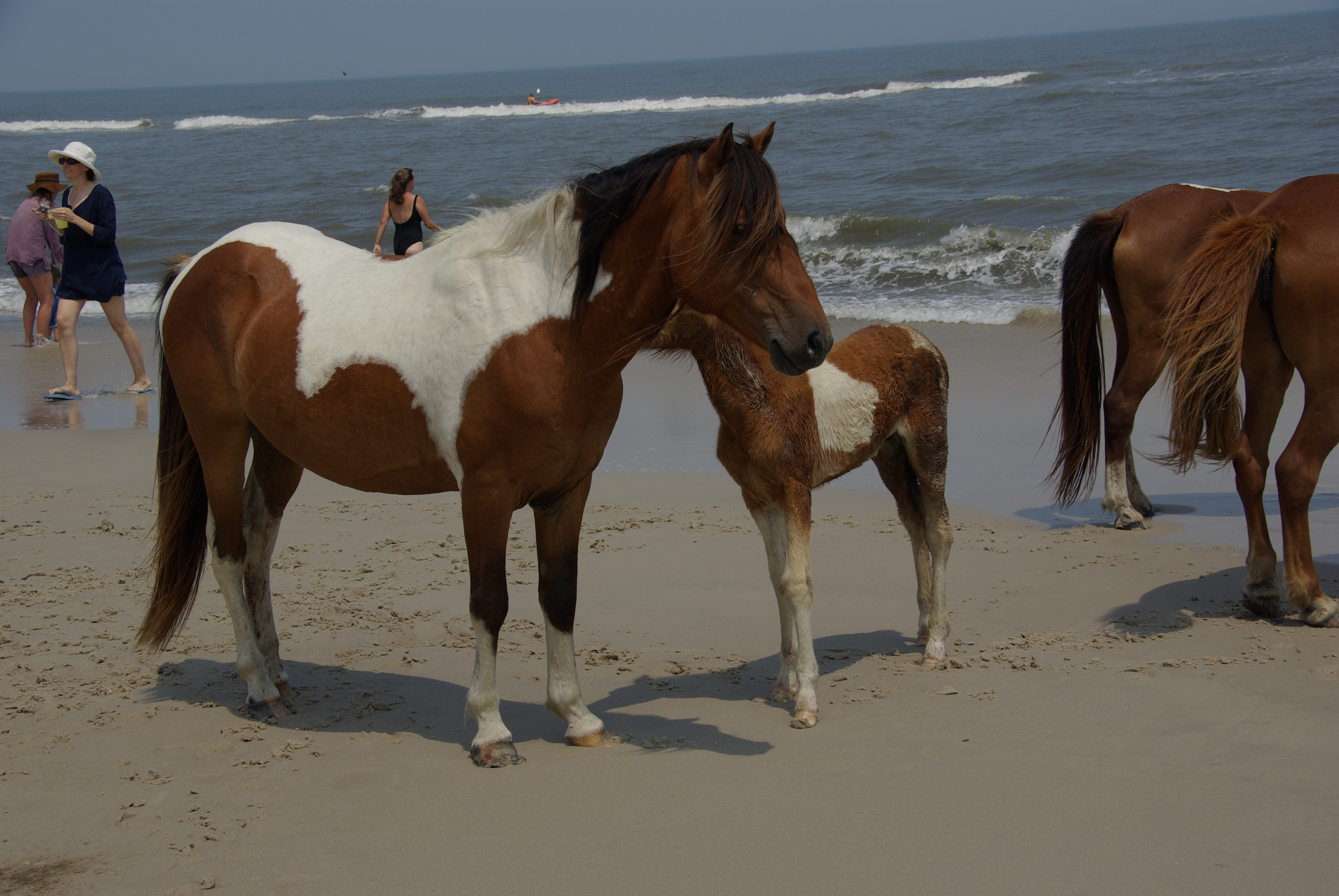 Assateague Pony on Assateague / Ocean City on July 4th